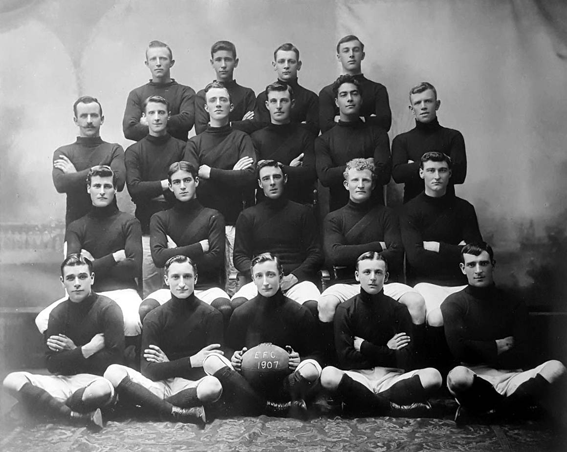 Team of Essendon Association F.C. of Australia.